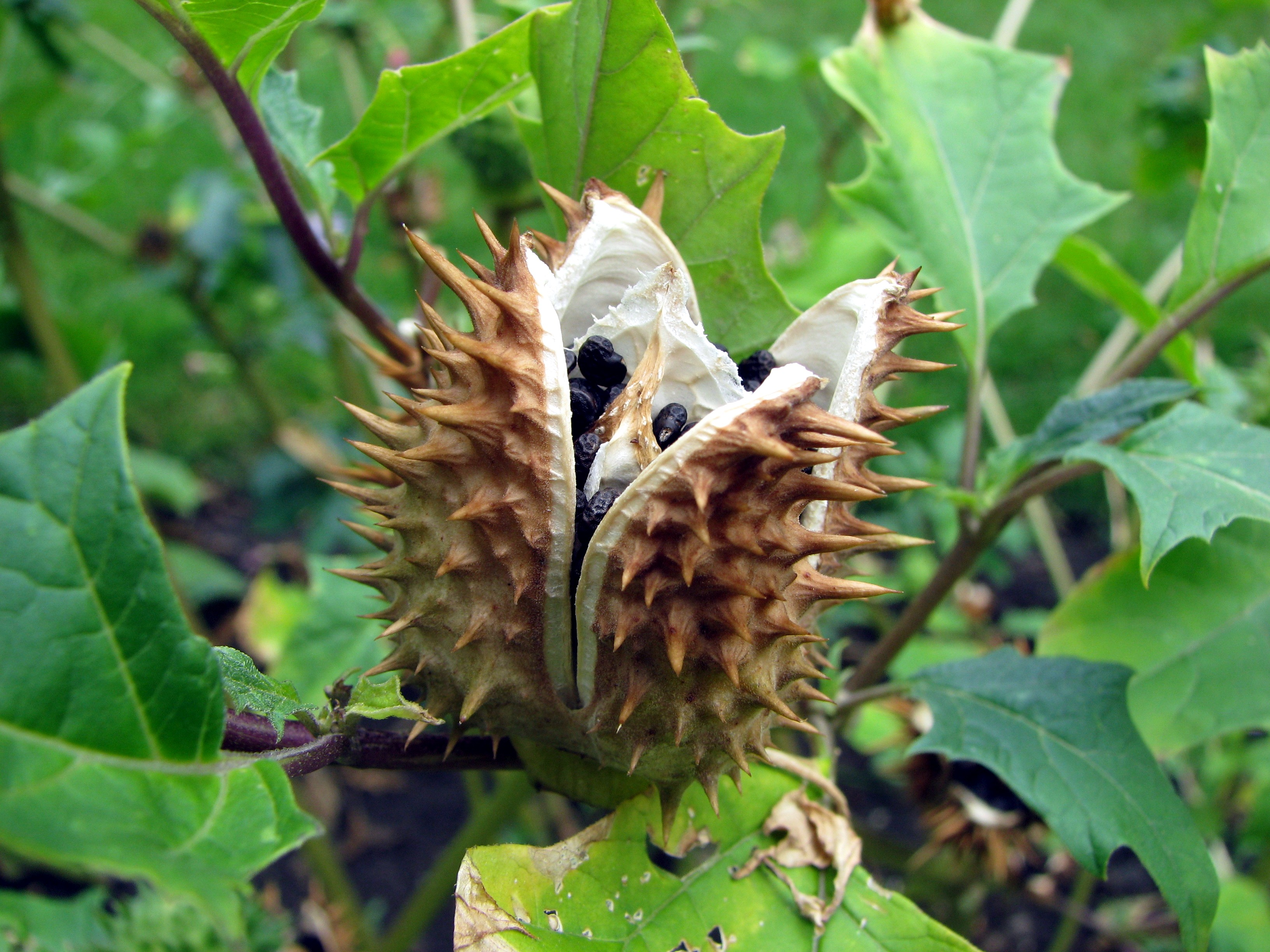 Jimsonweed Datura stramonium open fruit with seeds, plant cultivated in Wrocław University Botanical Garden, Wroclaw, Poland.